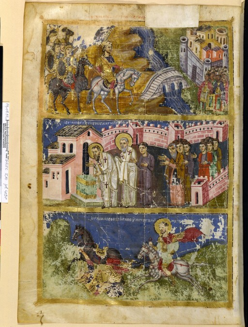 Julian II near Ctesifon (363); from IX century book with orations of Gregory the Great